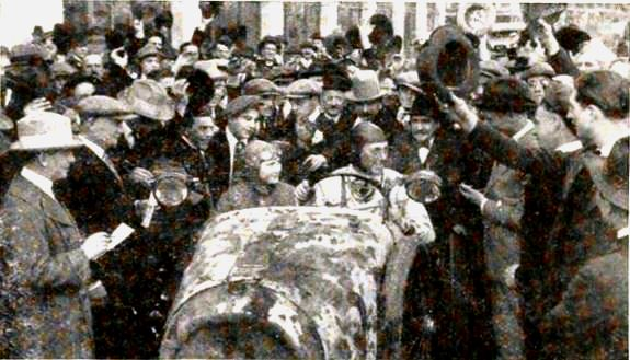 Still from the American film Across the Continent (1922) with Wallace Reid, on page 55 of the July 1922 Photoplay.